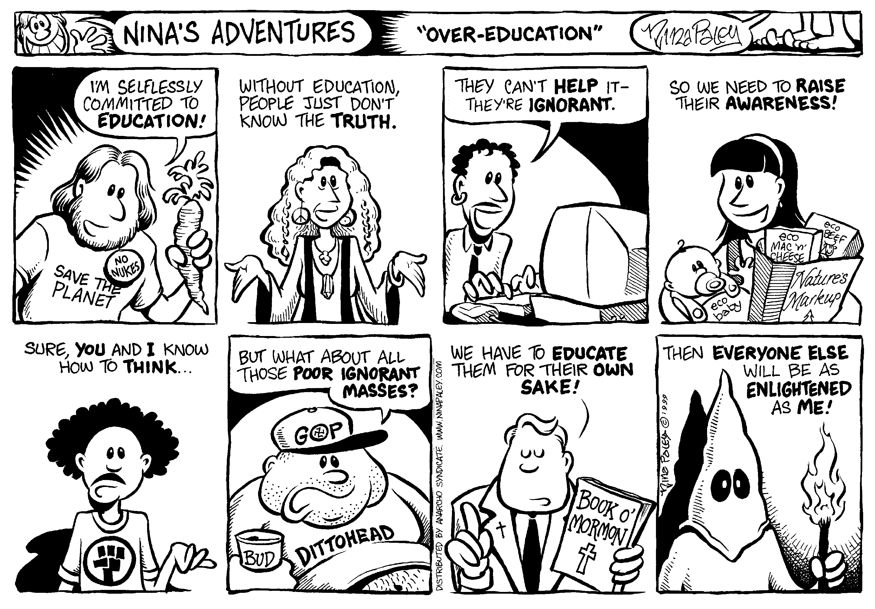 Nina's Adventures comic strip about the common desire to educate others.